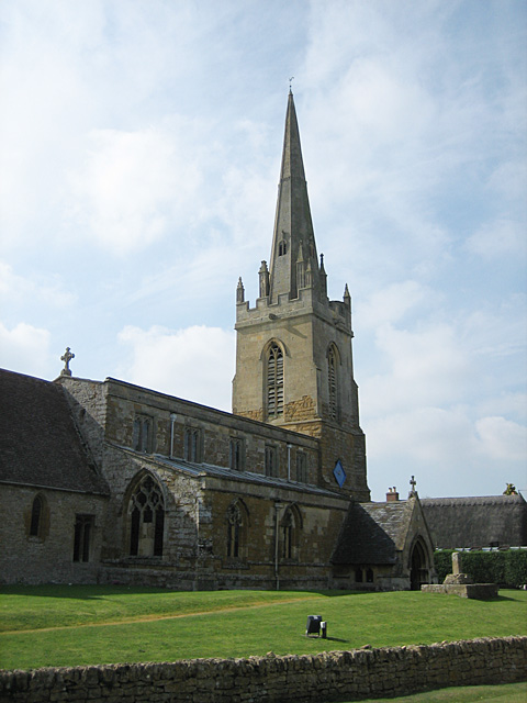 St Swithin's parish church, Lower Quinton, Warwickshire. Until 1931 this parish was in Gloucestershire.